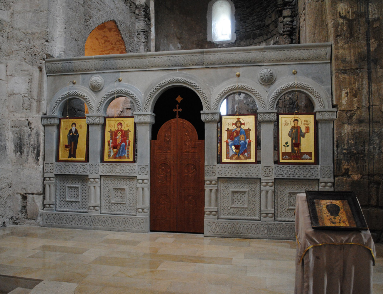 Kakheti. The Khirsa church in Tibaani